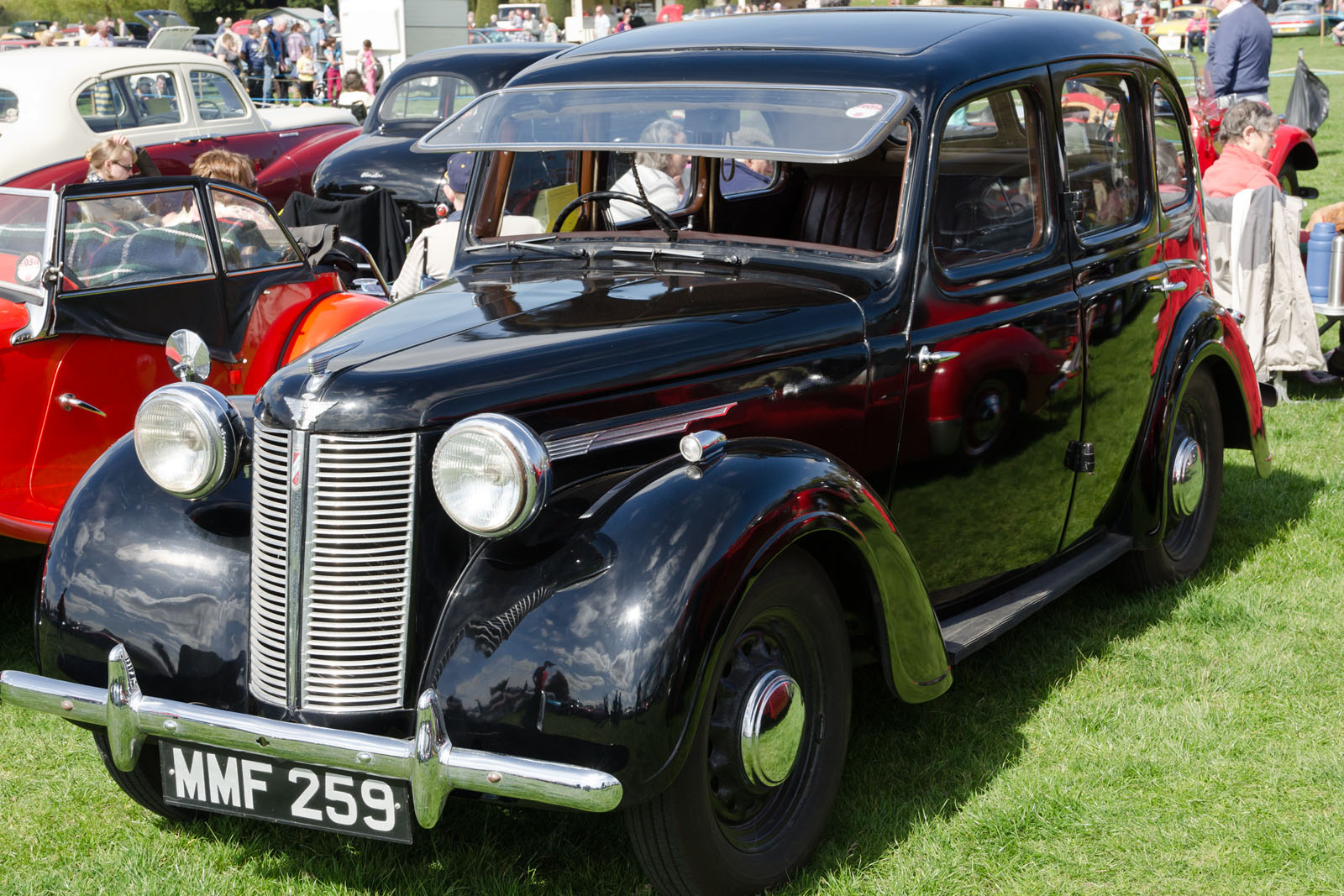 Austin 10 Catton Hall Classic Car Show 05/05/2013